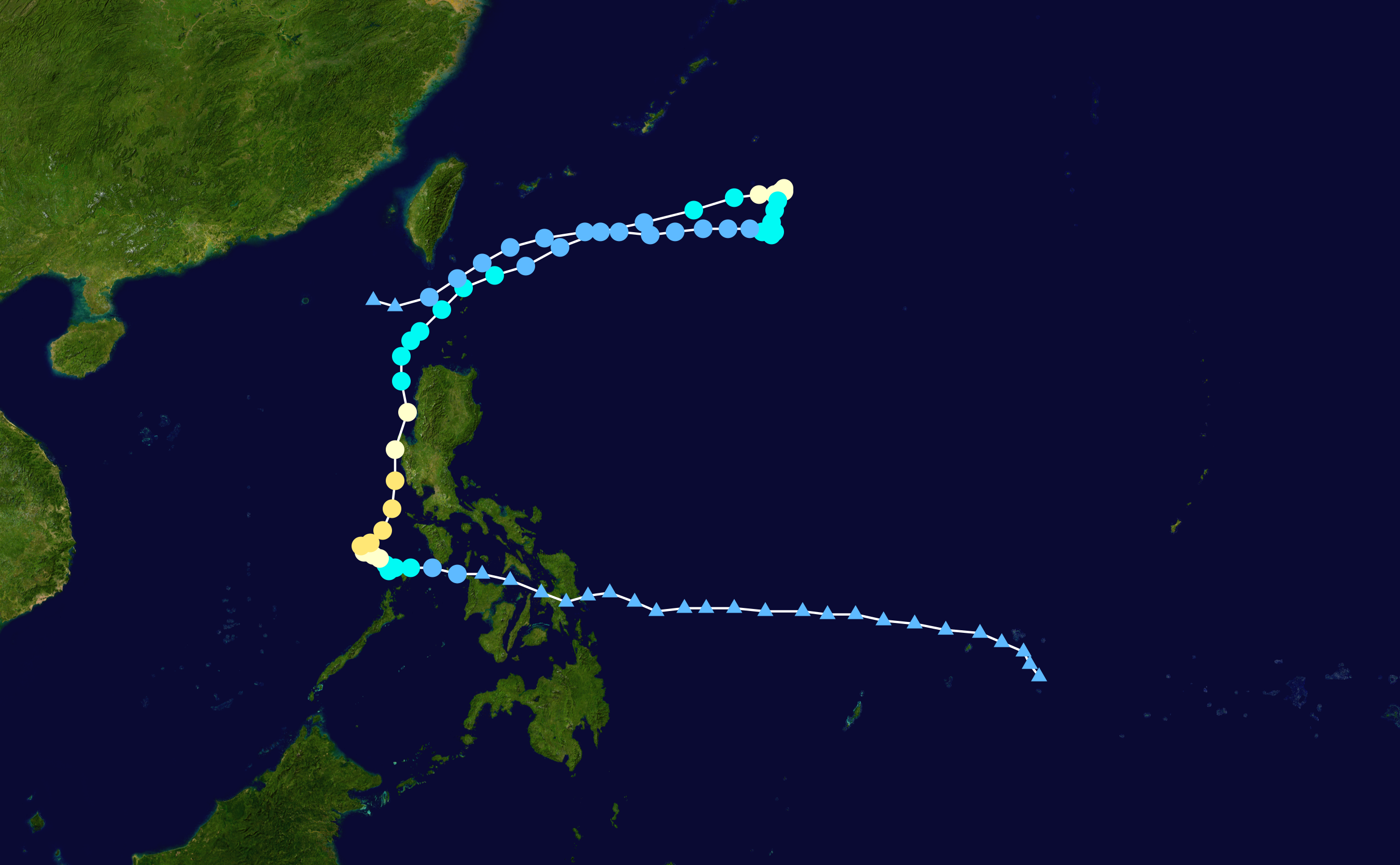 Typhoon Faye 1982 track. Uses the color scheme from the Saffir-Simpson Hurricane Scale.